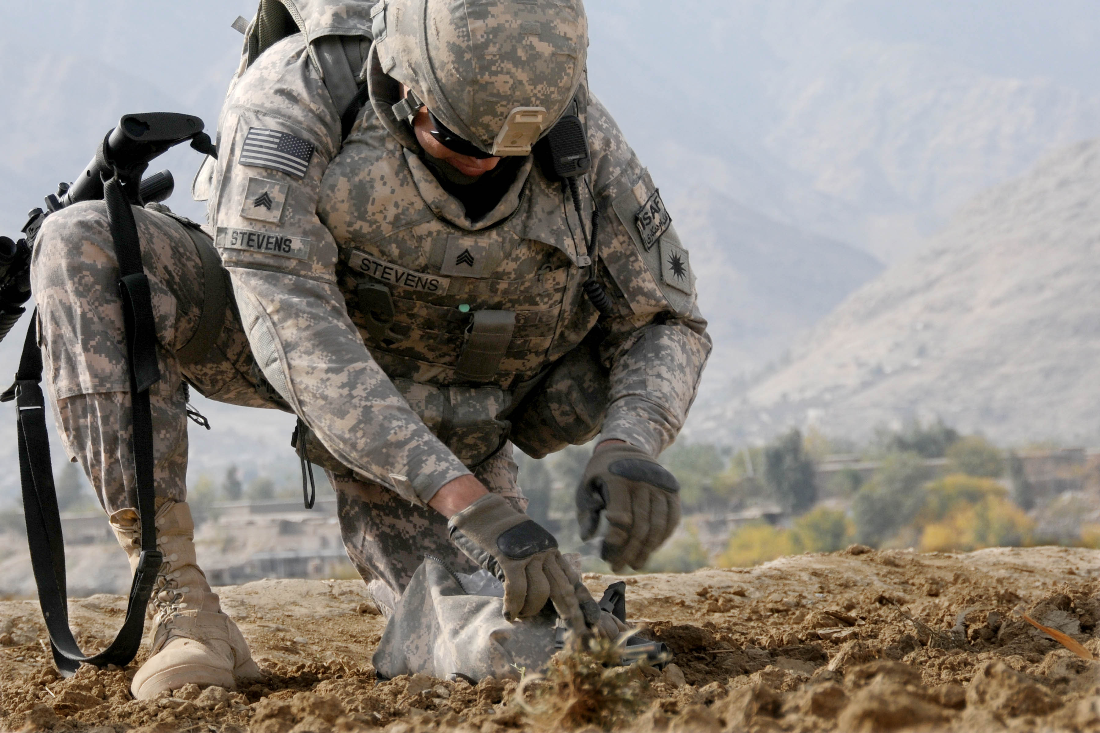 U.S. Army Sgt. Jason Stevens, California Army National Guard?s 40th Infantry Division Agribusiness Development horticulturist, gathers a soil sample from a field alongside the main road in Marawara, Afghanistan, Nov. 23, 2009. The ADT stopped in Marawara to meet with local farmers about their crop output and farming in the area, as well as to gather soil samples from fields along the road to learn how crop production might be increased in the area. (U.S. Air Force photo by Tech. Sgt. Brian Boisvert, PRT Kunar Public Affairs/RELASED)